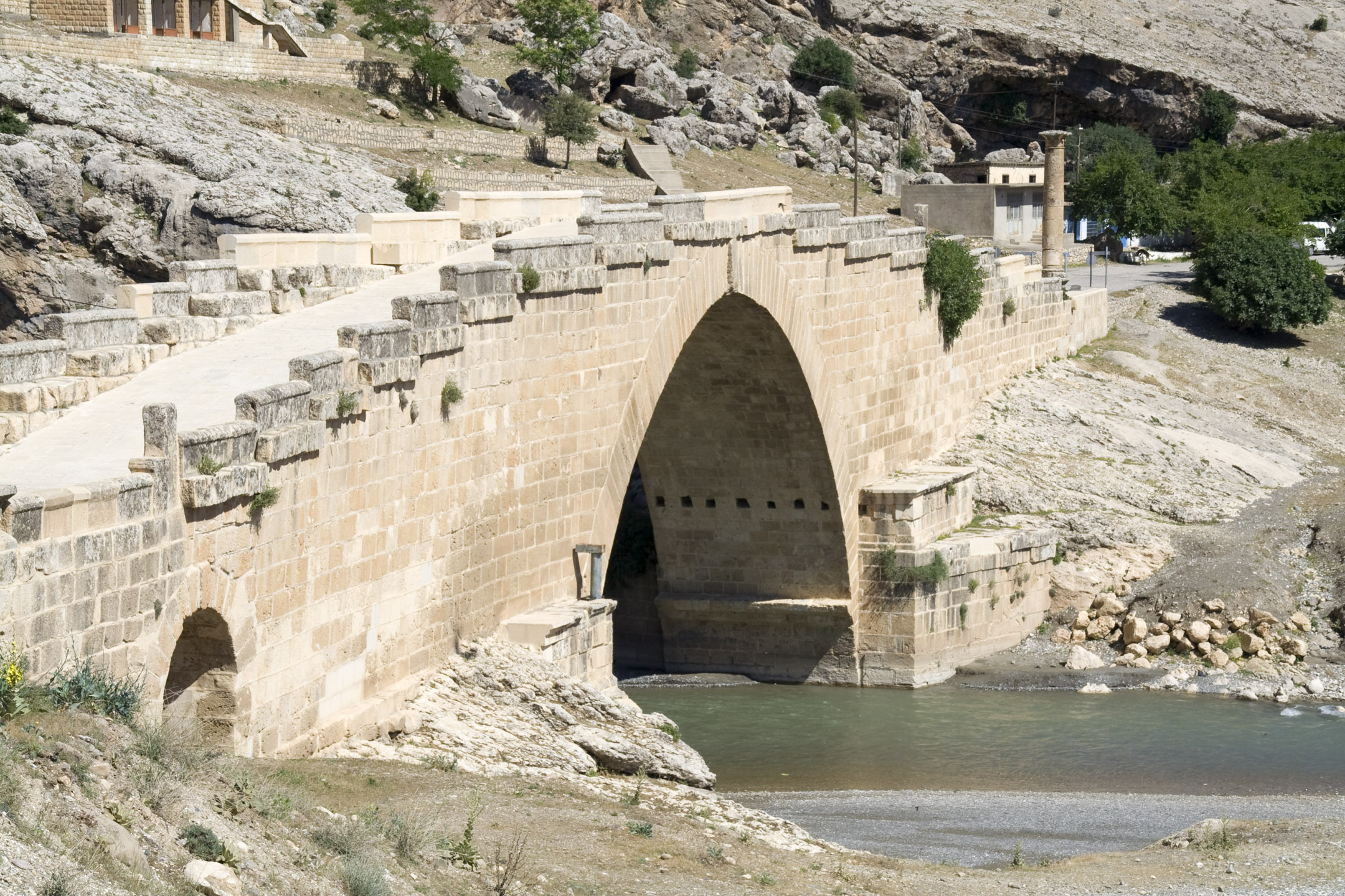 Photo taken of the roman bridge (3rd century AD) at Cendere Çayi, Turkey — Severan Bridge.